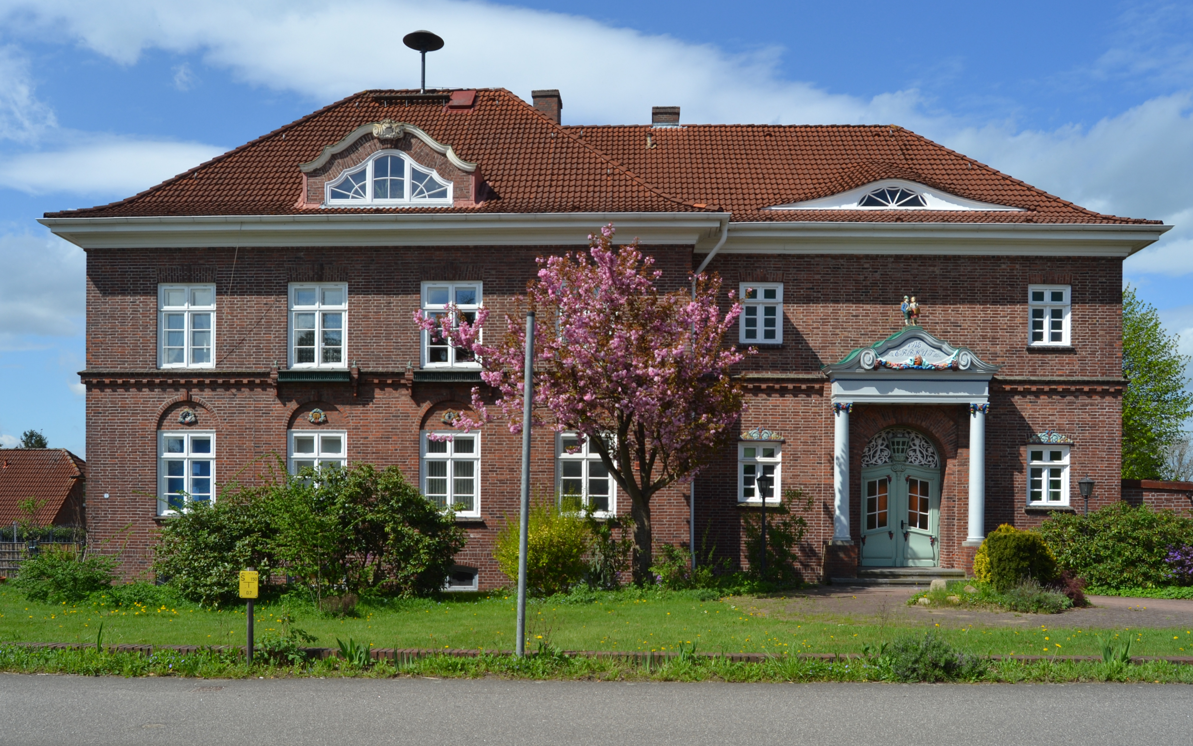 Groß Nordende (Germany) – Dorfstraße 93 – Former schoolhouse from 1915 – photo 2013